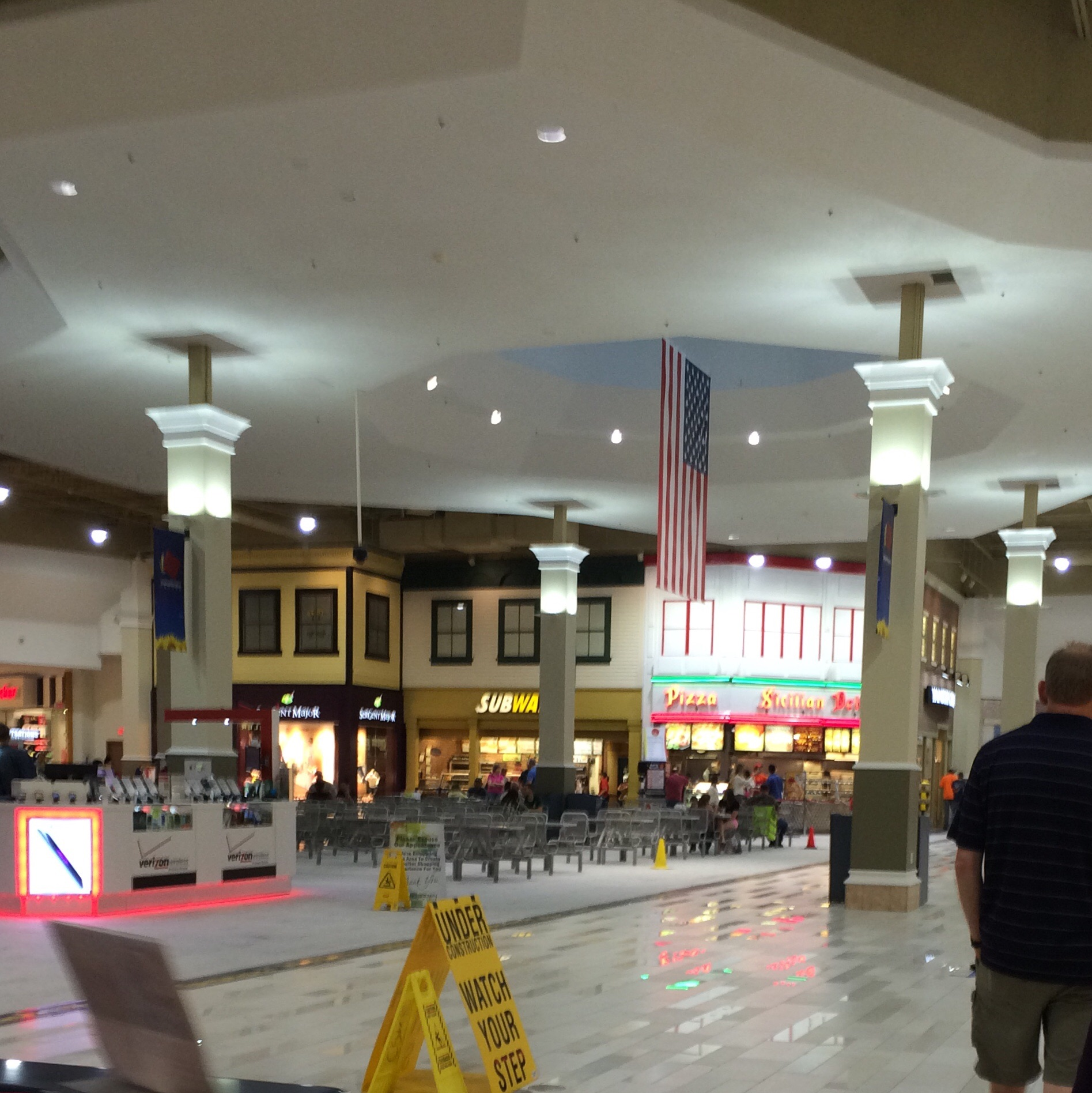 Sangertown Mall Atrium